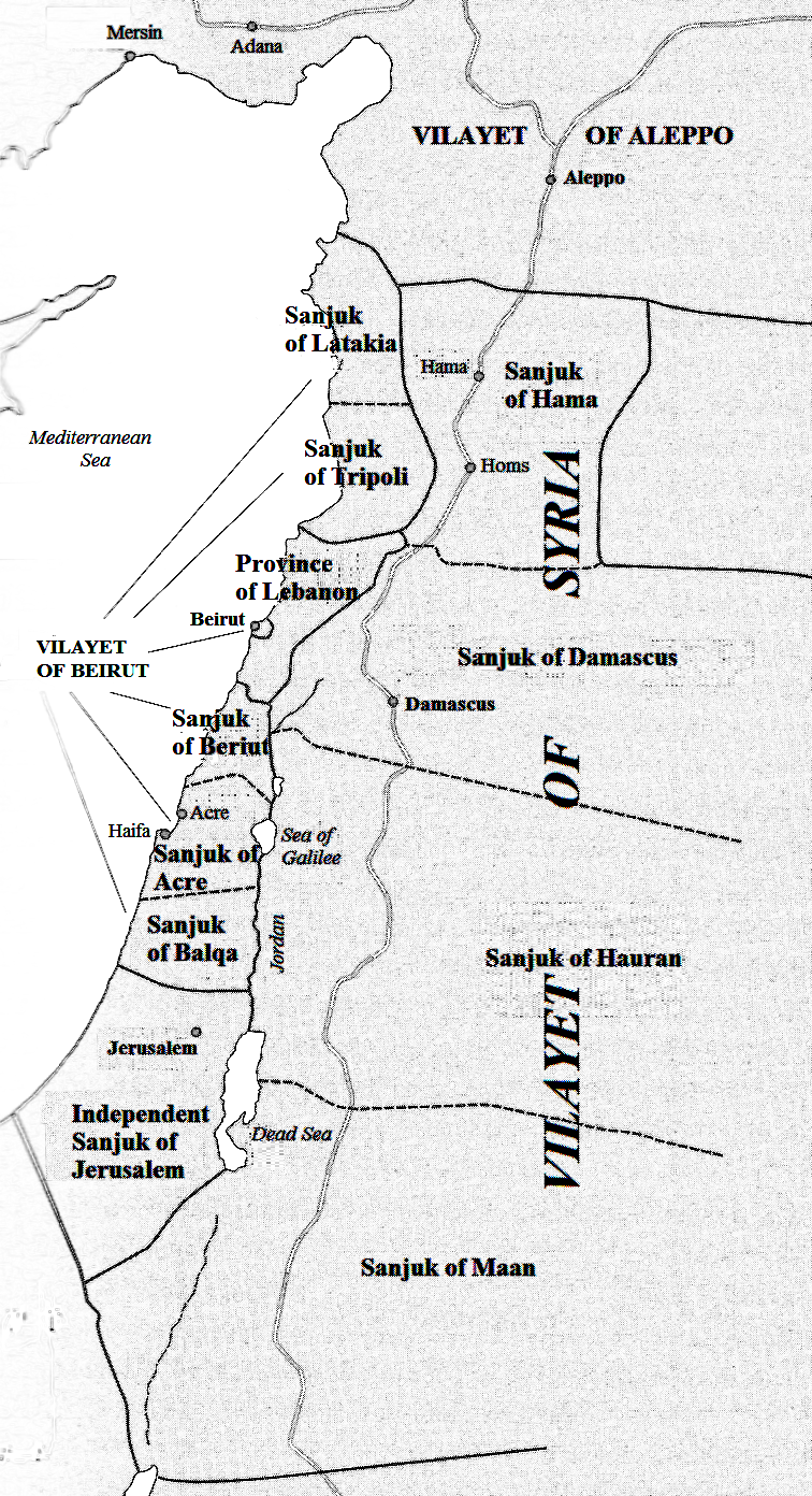 The Levant in the Ottoman Empire before World War I